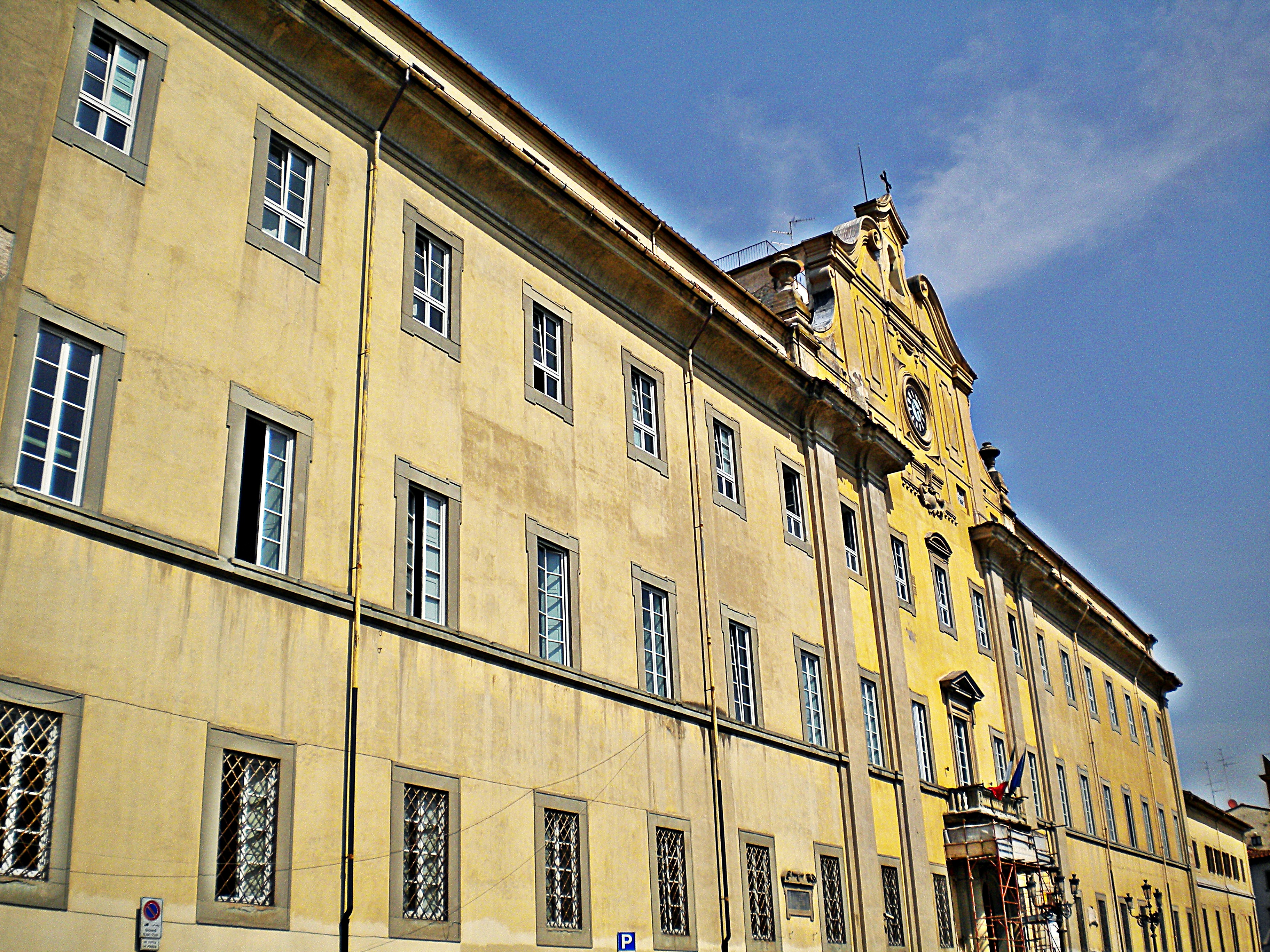 facade